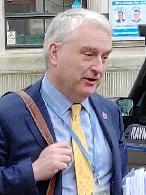 Gerald Vernon-Jackson, Leader of Portsmouth City Council (19 March 2019).